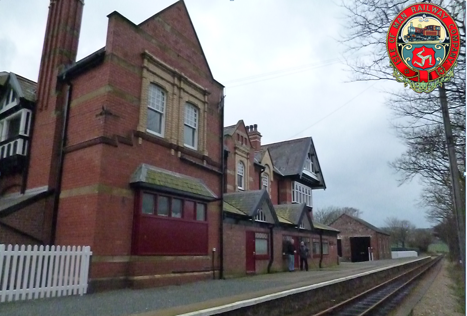 The 1898 built station at Port St. Mary on the Isle of Man Railway